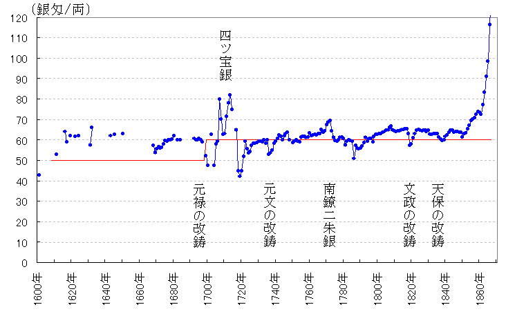 Koban(Ryo)-Chogin(Monme)-rate